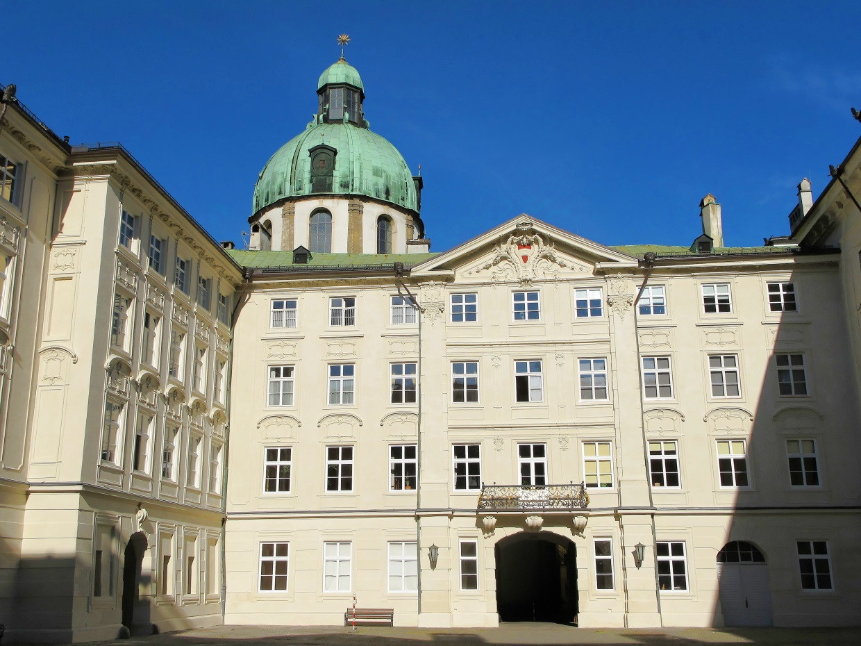 Innsbruck, Castle "Hofburg", Courtyard